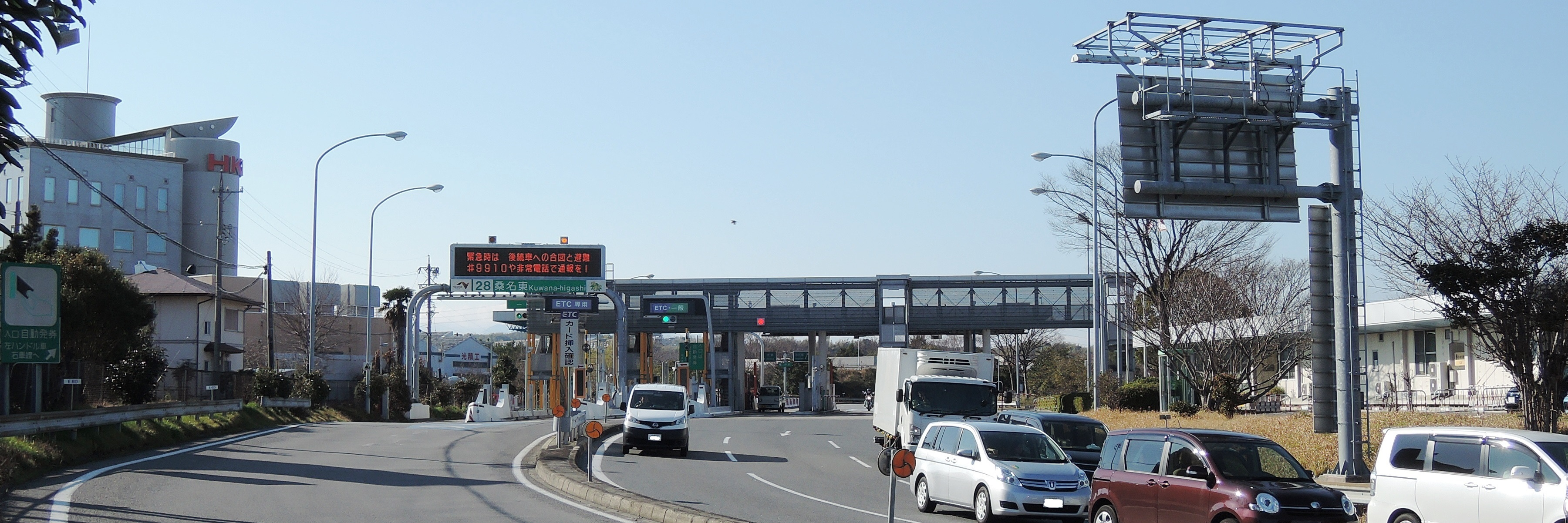 Kuwana-Higashi Inter Change,Mie prefecture,Japan